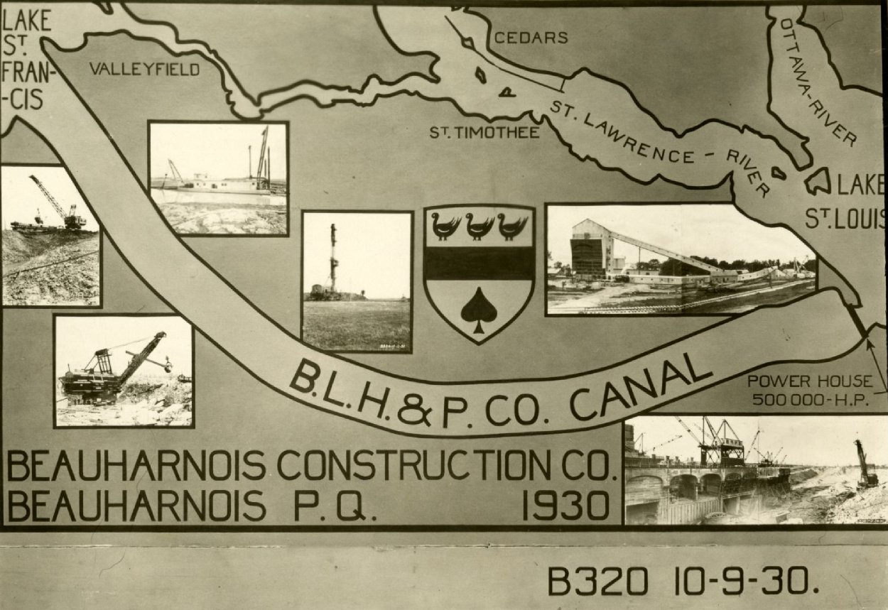 Schema of the first phase of the Beauharnois hydroelectric generating project.